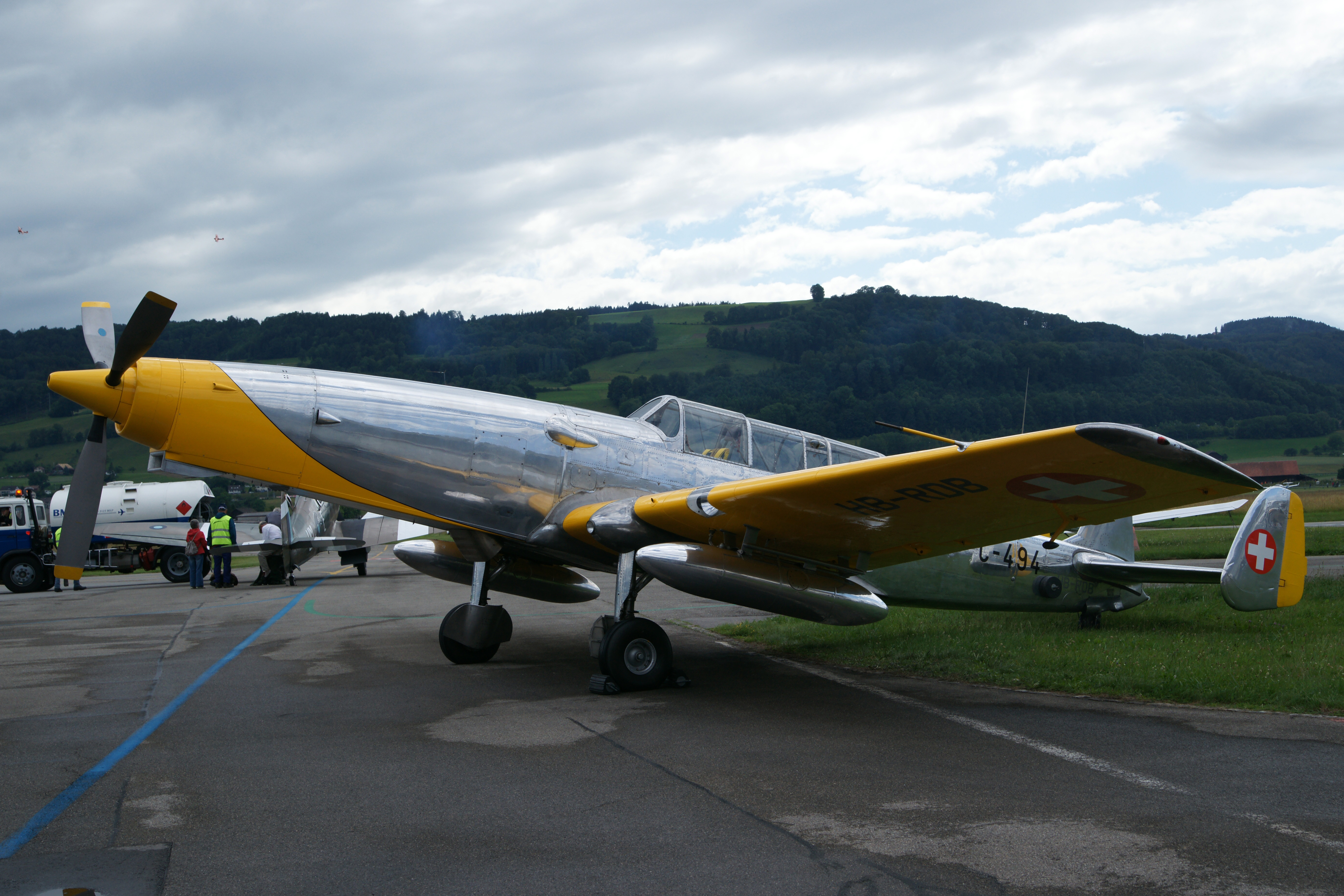 F+W C-3605 "Schlepp" C-494 (HB-RDB) at the IBT'11 air show at Bern-Belp airport.